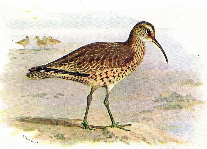 Eskimo Curlew by Archibald Thorburn (1860 - 1935).